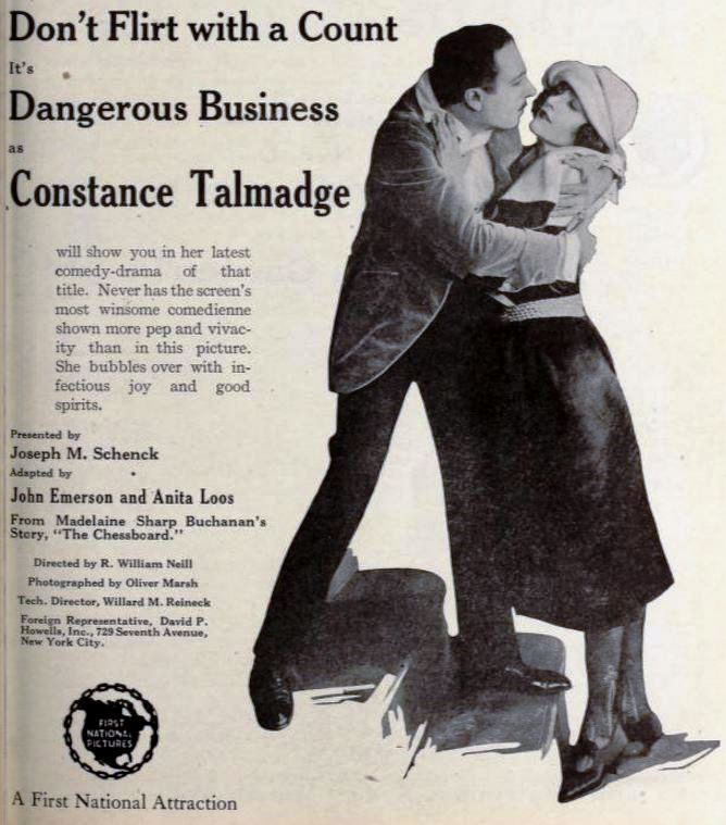 Advertisement for the American comedy romance film Dangerous Business (1920) with an unidentified actor and Constance Talmadge, on page 35 of the November 13, 1920 Exhibitors Herald.